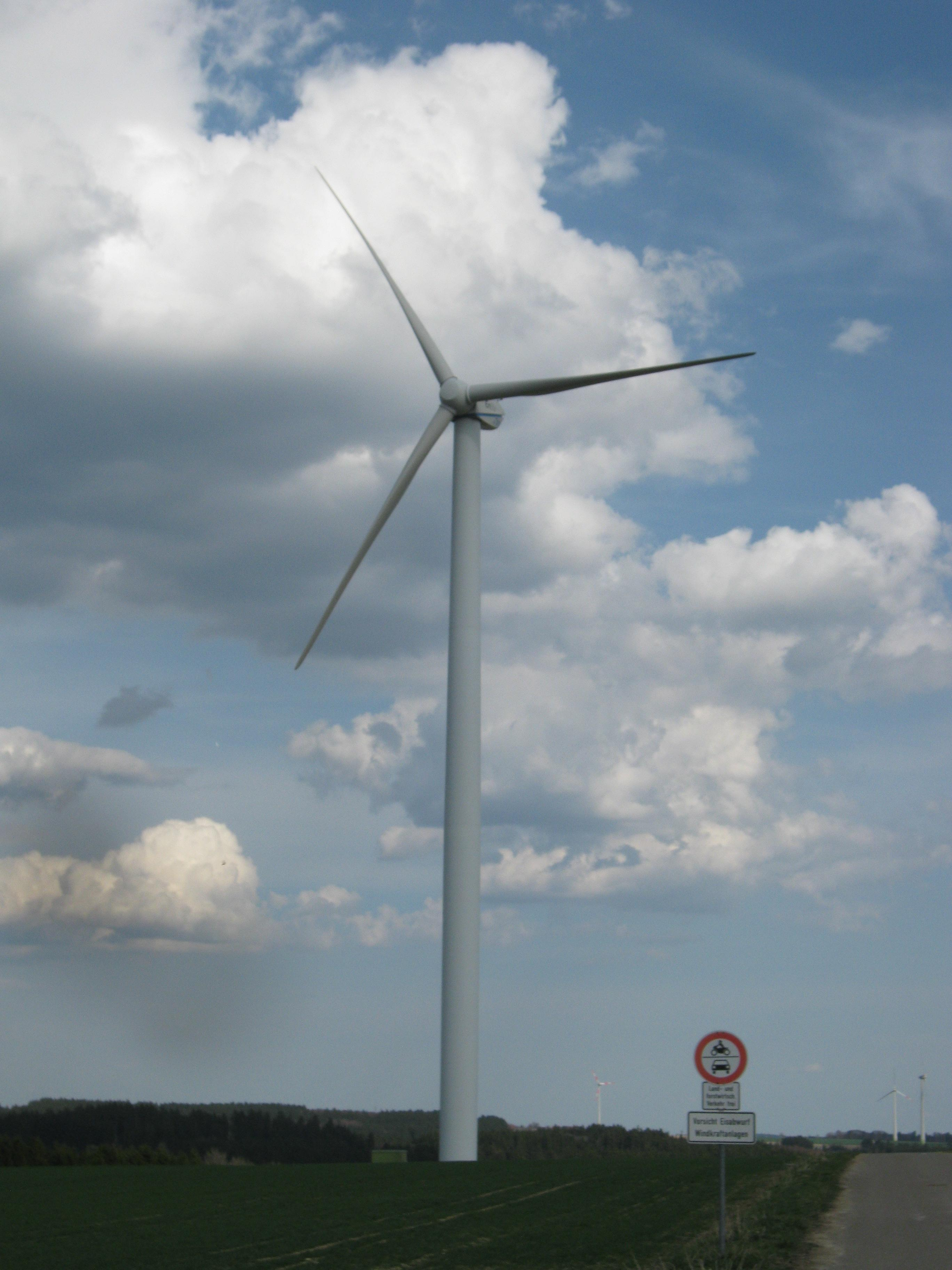 Wind turbine of REpower MD 70 type near Boehmenkirch. The turbine has a rotor diametre of 75 metres, an axis height of 85 metres and a power of 1500 kW.